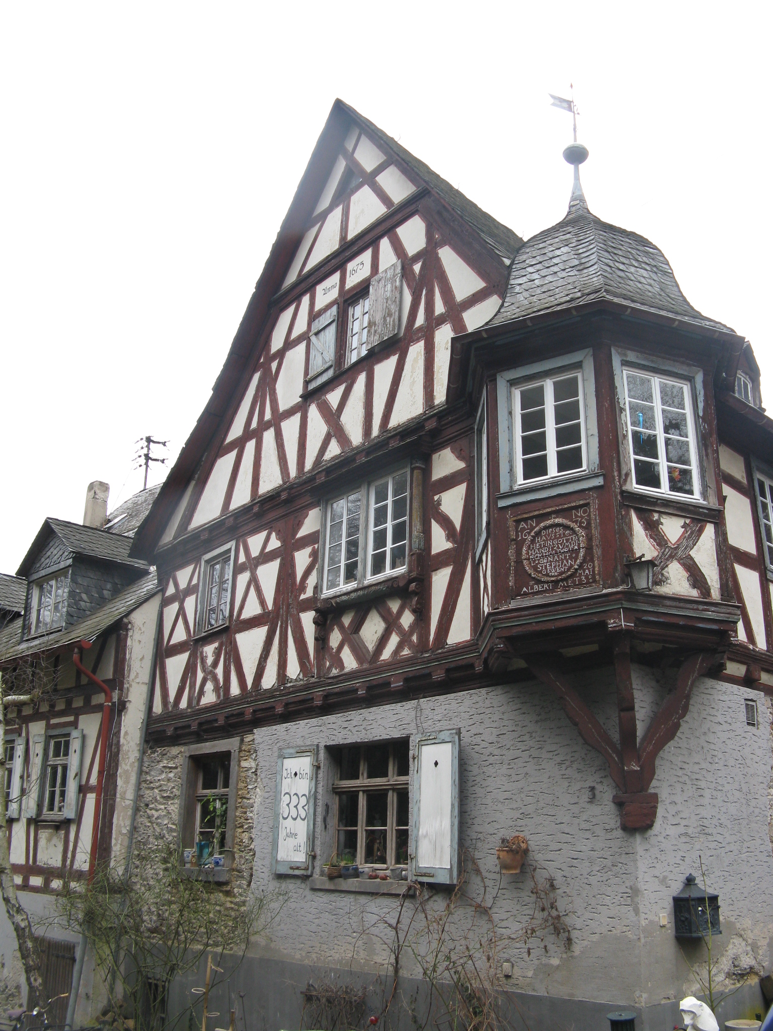 Dinkholder Mill (1675)